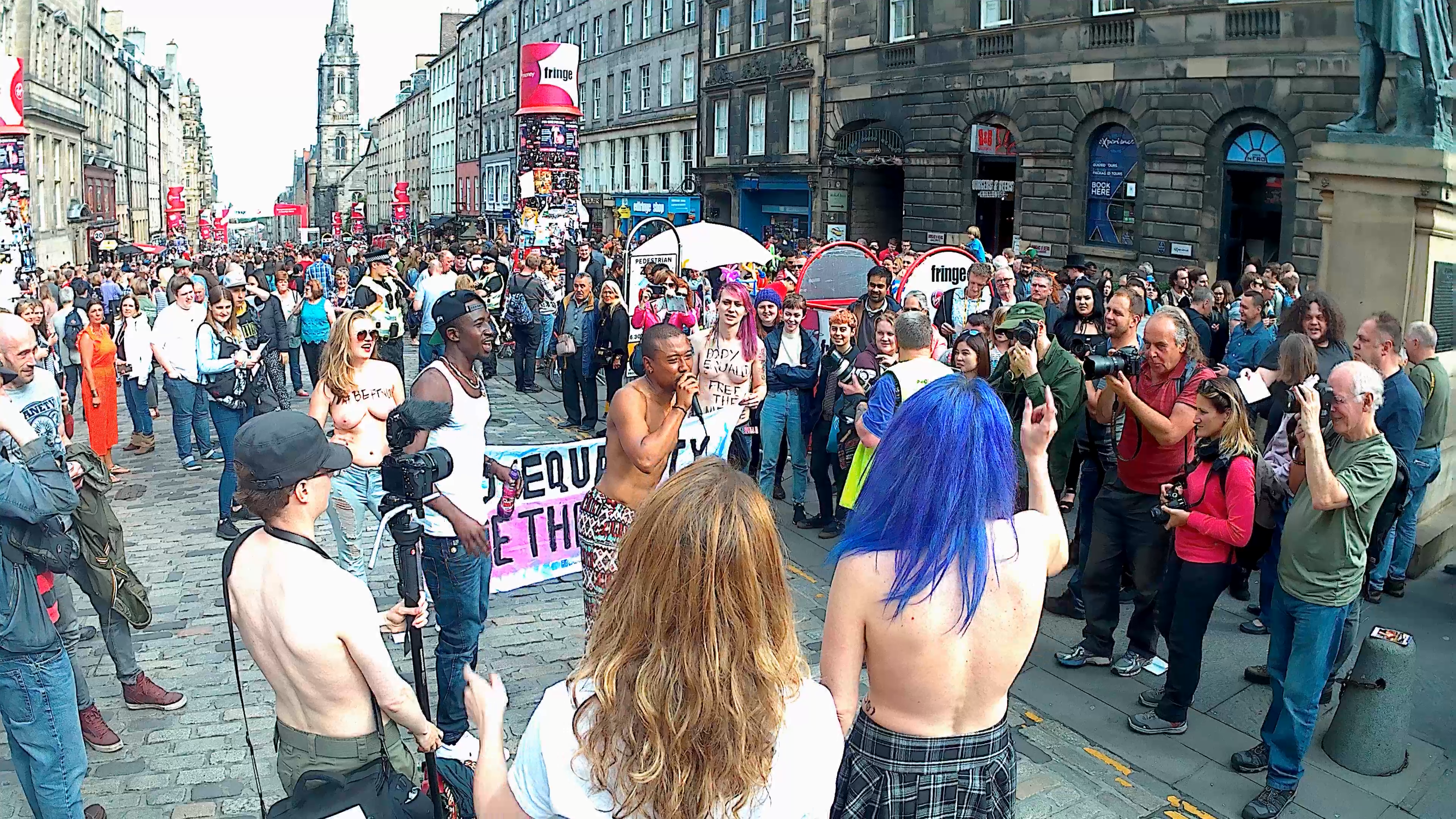 Free the Nipple Protest at Fringe 2017 Festival in Edinburgh